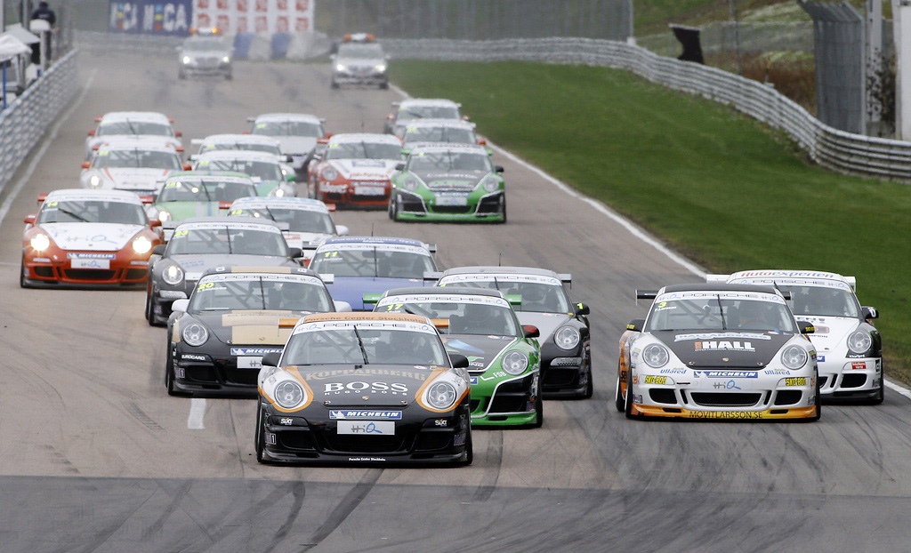 Carrera Cup 2010 - Knutstorp